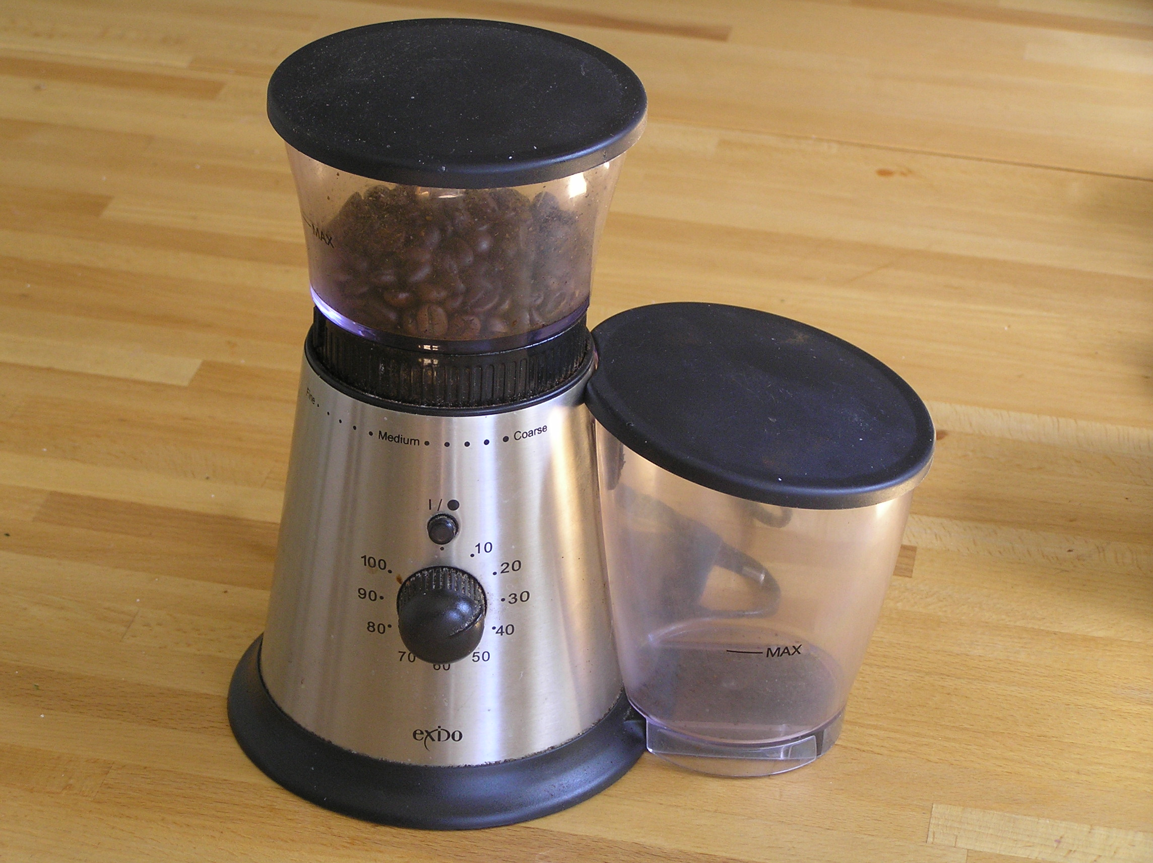 Electric coffee grinder